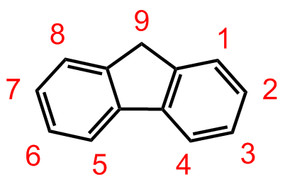 Author: Mark Oakley